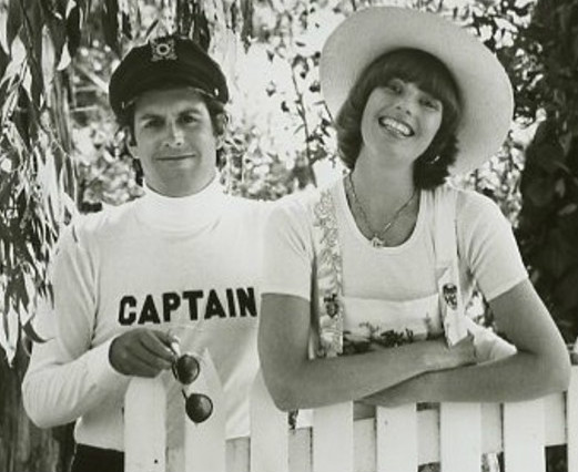 Publicity photo of Captain & Tennille from their short-lived television show, 1976.